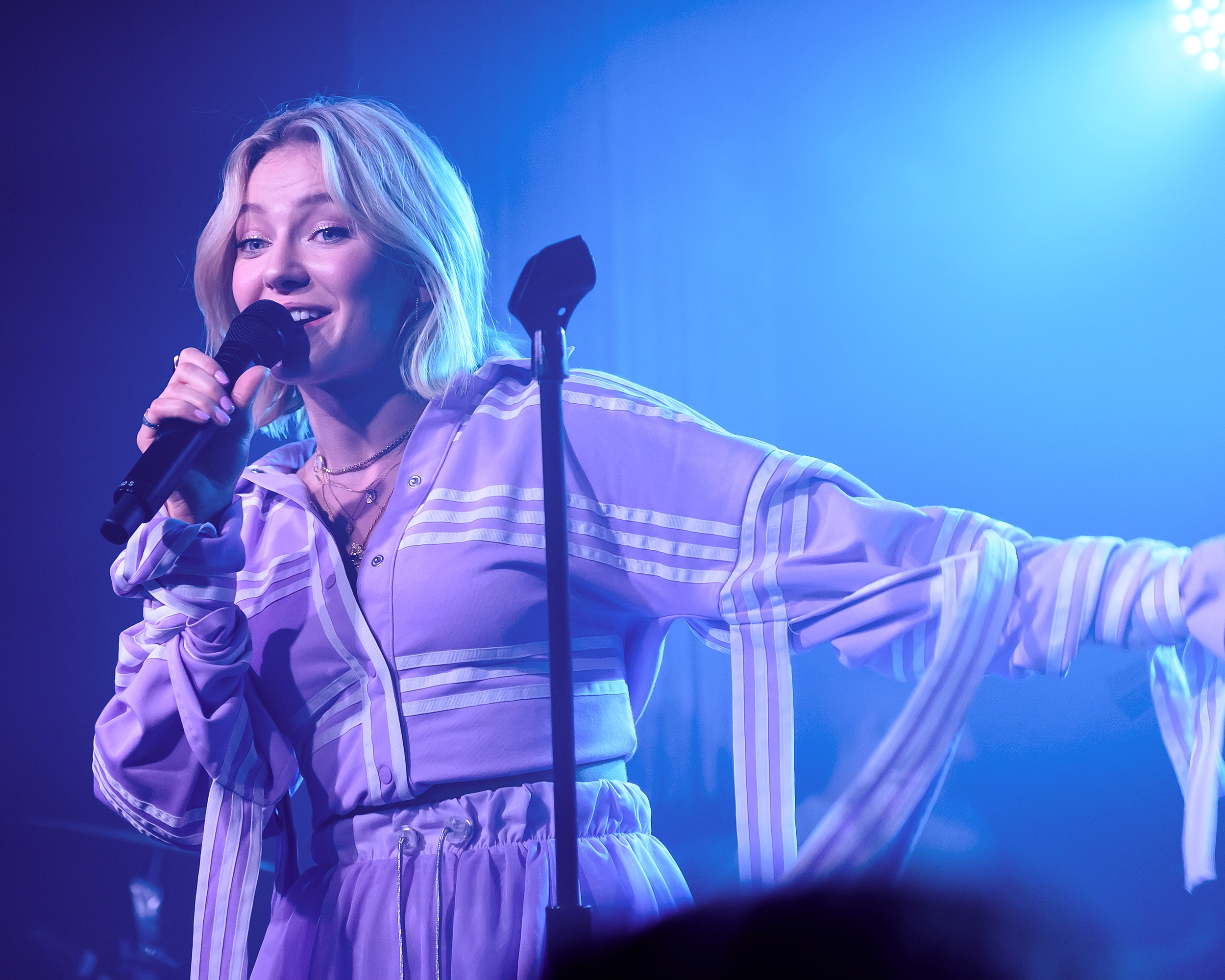 Astrid S. performing live at the Moroccan Lounge in Los Angeles, California, on Monday, February 25, 2019.